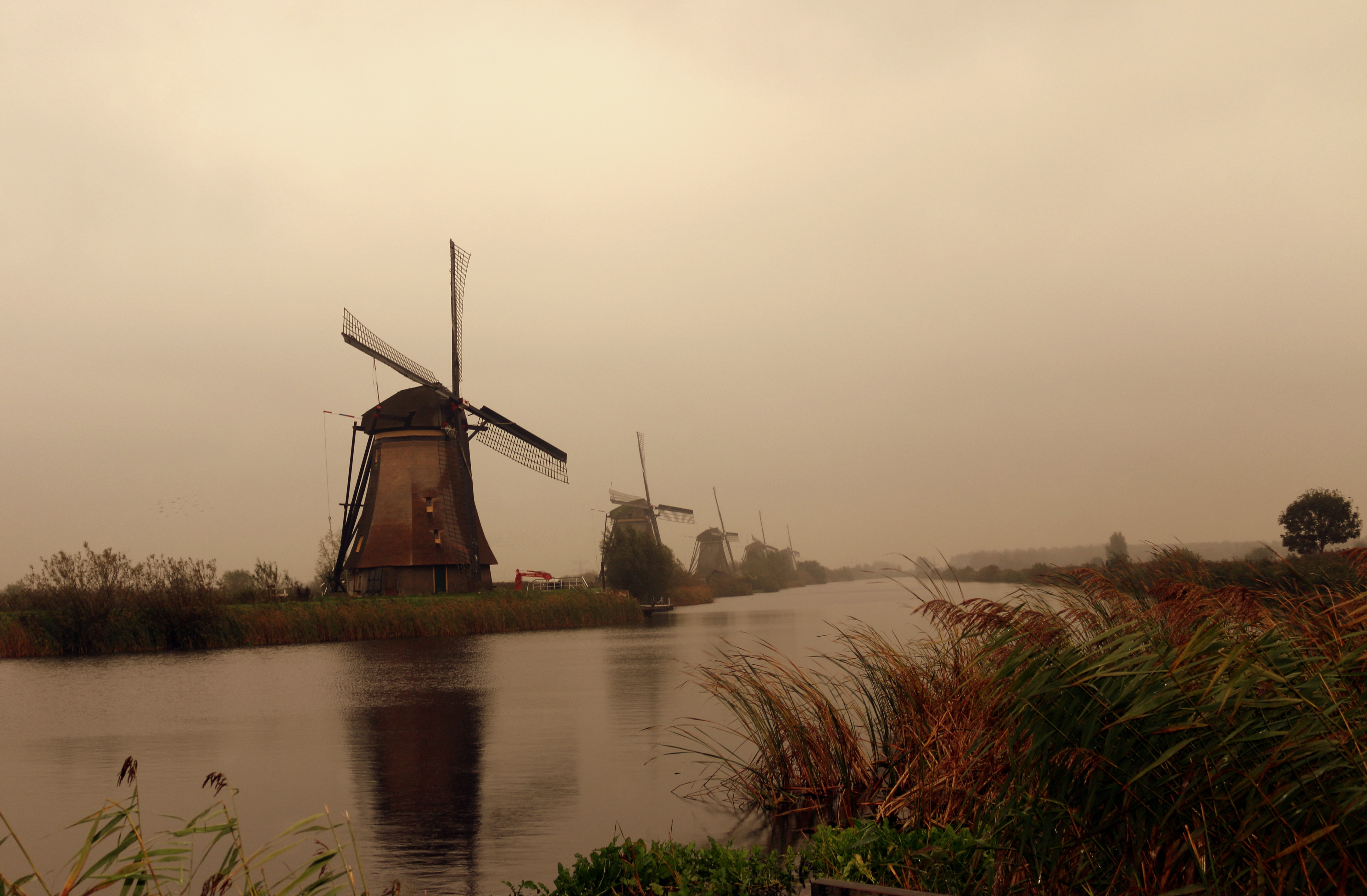 Kernowek: Windmills in KINDERDIJK, the Netherlands, October 2014. Photo by Pejman Akbarzadeh / Persian Dutch Network